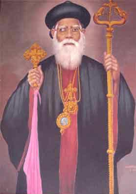 Portrait of Geevarghese Mar Dionysius of Vattasseril made prior to 23 February 1934